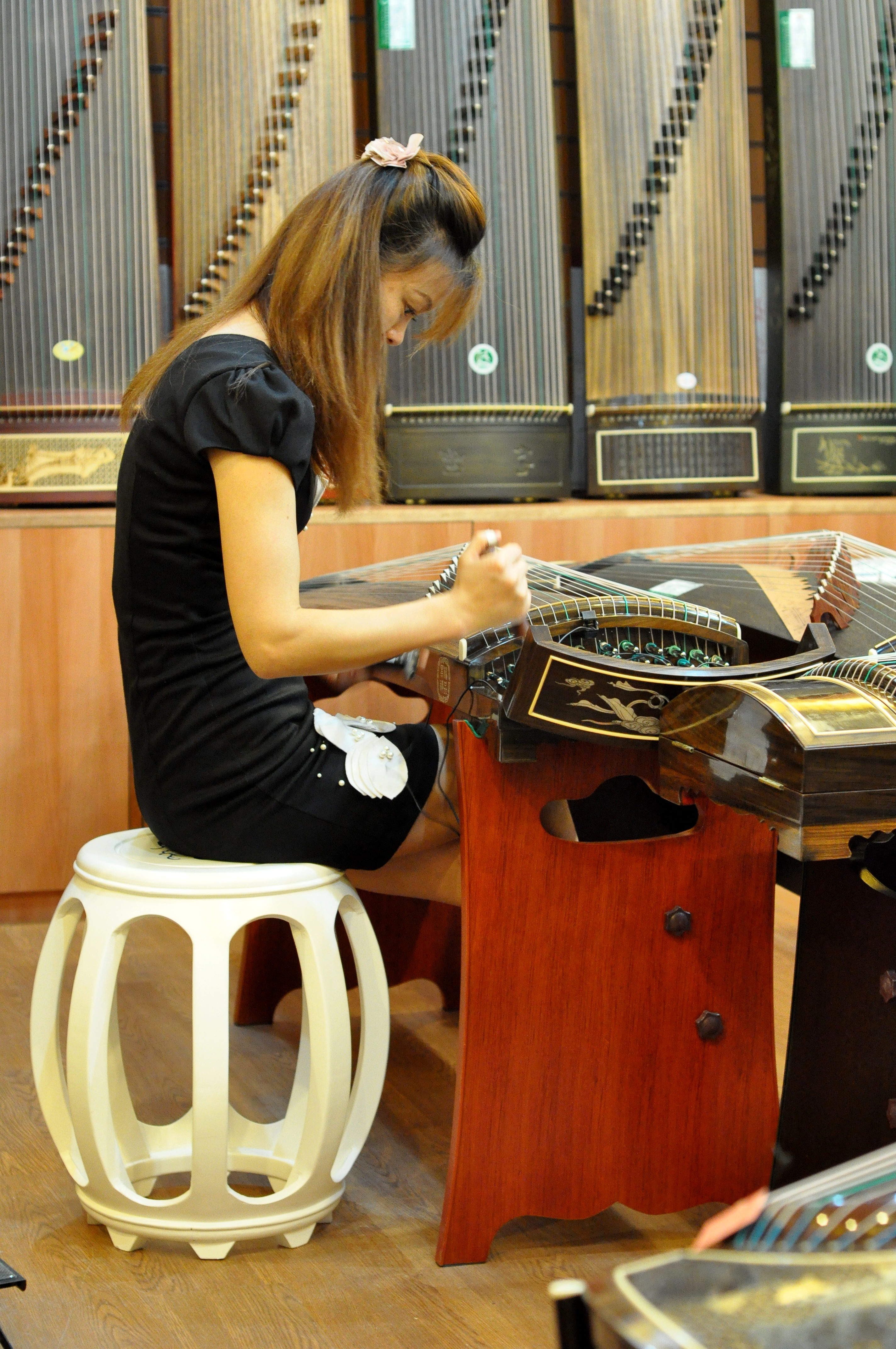 A shop assistant is tuning a Guzheng. Shenzhen, China.